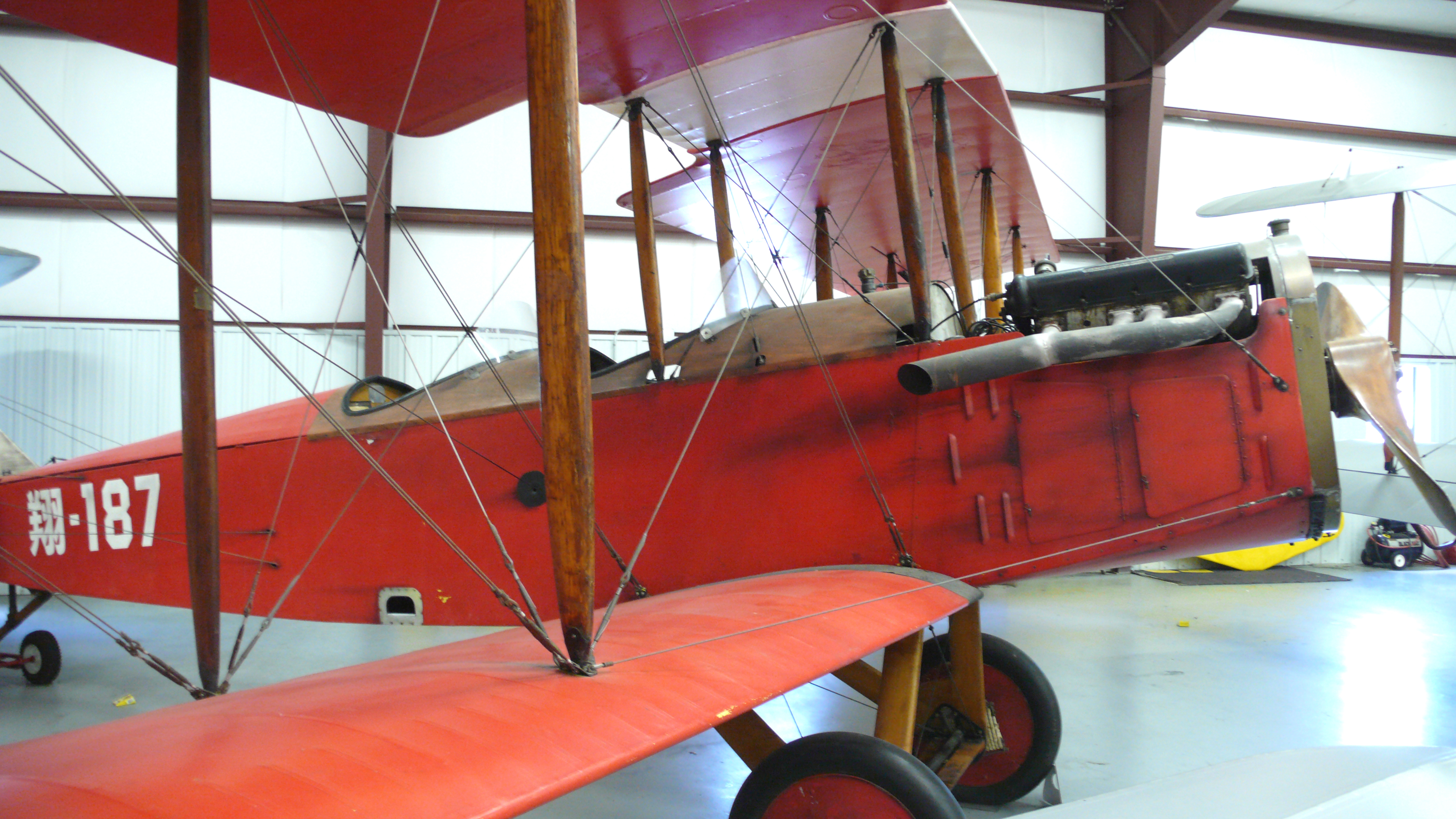 Standard J-1 from 1917